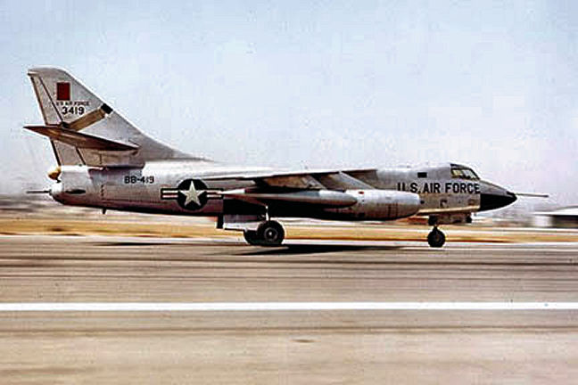 Douglas RB-66B-DL Destroyer AF Serial No. 54-0419, converted to EB-66E, of the 42nd Tactical Reconnaissance squadron, 10th TRW. at Det. 1, 10th TRW, Toul-Rosières Air Force Base, France. This aircraft was retired to MASDC in October 1972